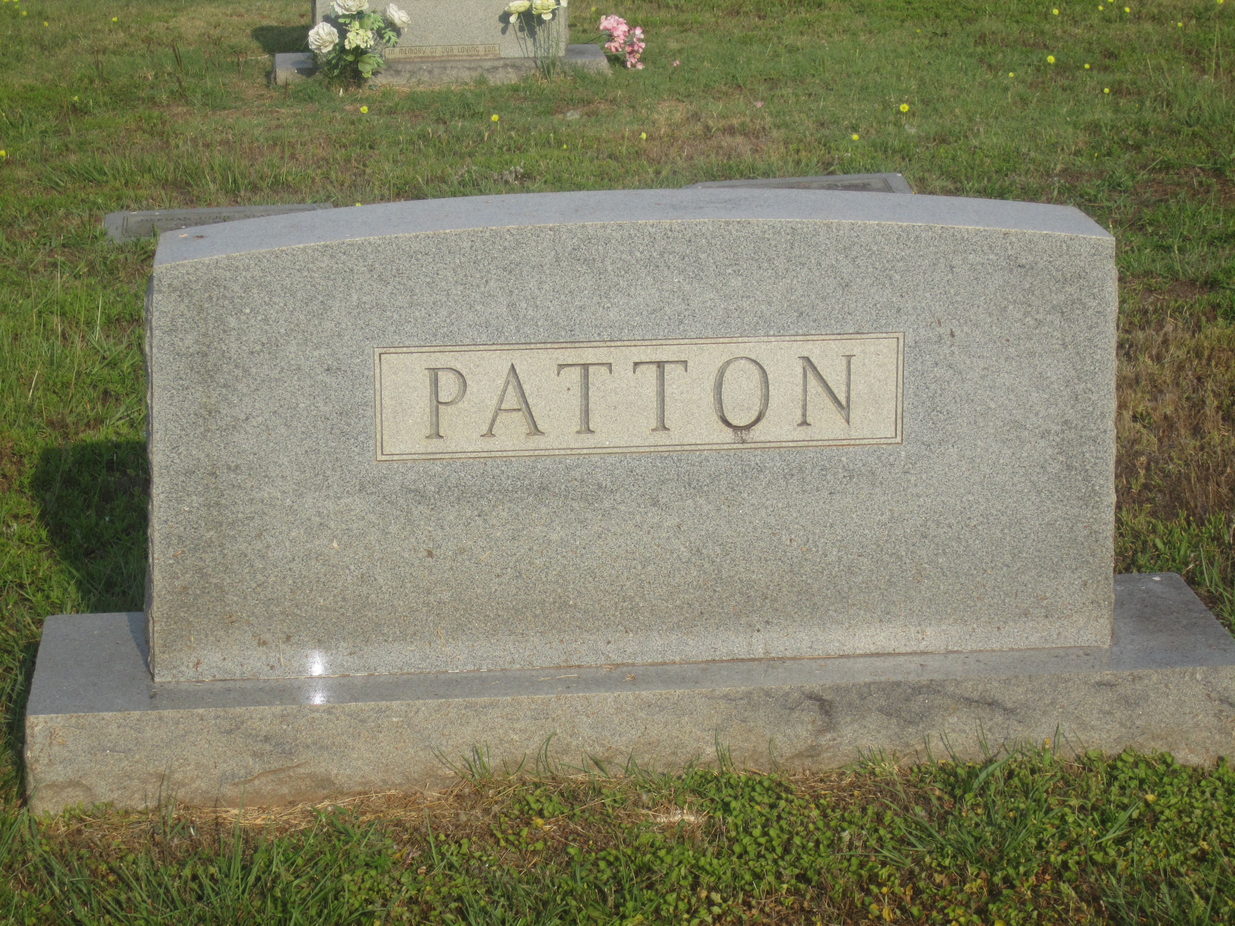 I took photo of John Sparks Patton gravestone in Arlington Cemetery in Homer, LA, with Canon camera.